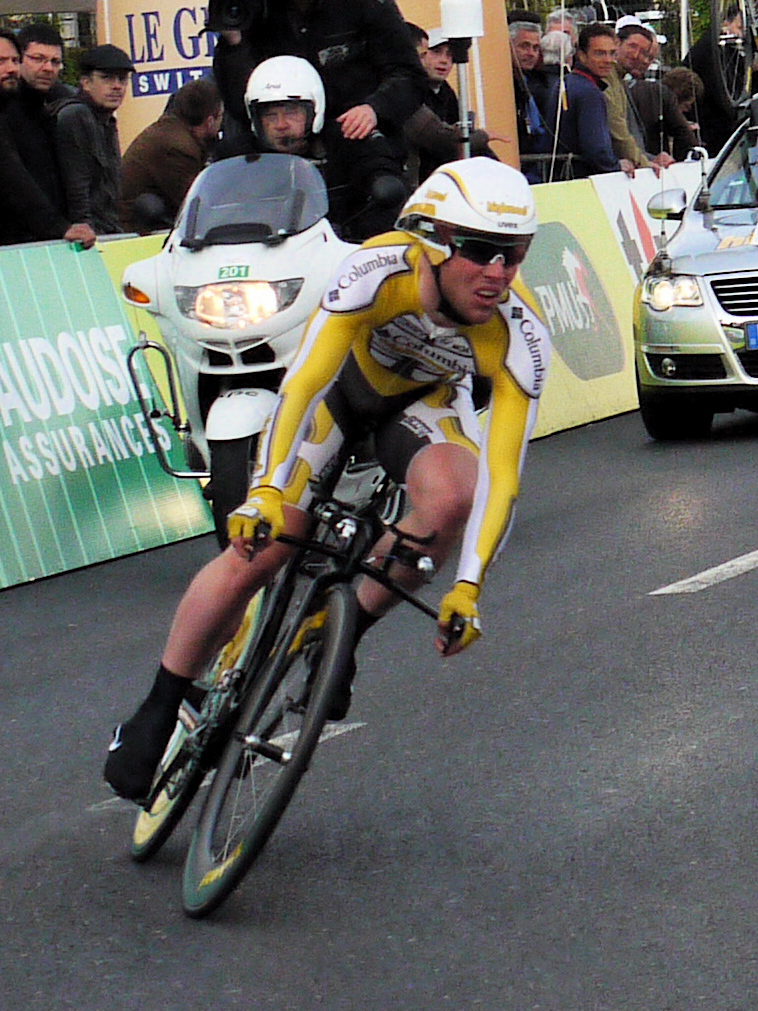 Cav takes the final corner. Like Cancellara, he was well off the winning pace on the day. Then again, he won Milan-San Remo a few weeks ago, so I doubt he's excessively worried.